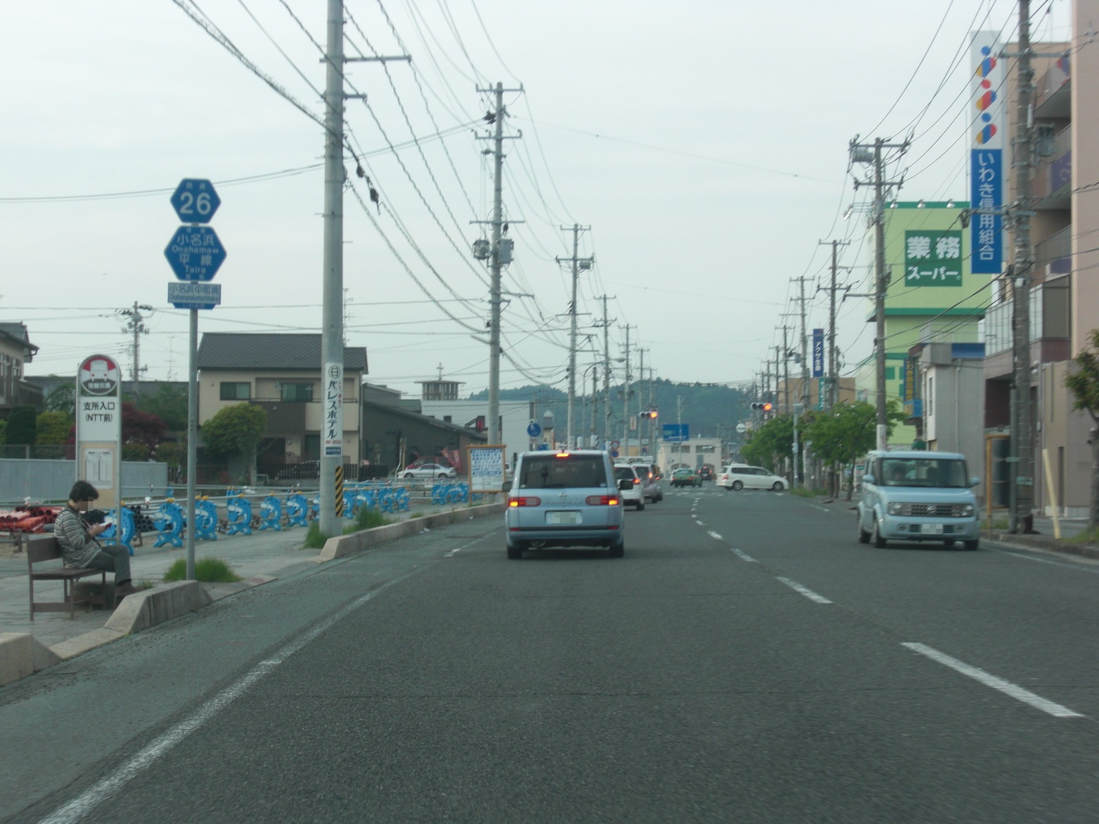 This is a landscape of the Fukushima prefectural road No,26 Onahama Taira Line in Iwaki, Fukushima, Japan.